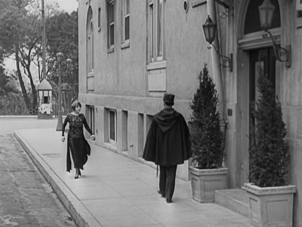 The Ansonia Apartments, Lake Street and W 6th Street, Historic Westlake District Of Los Angeles, Exterior Filming Location for Charles Chaplin's Silent Film "A Woman Of Paris" -1923